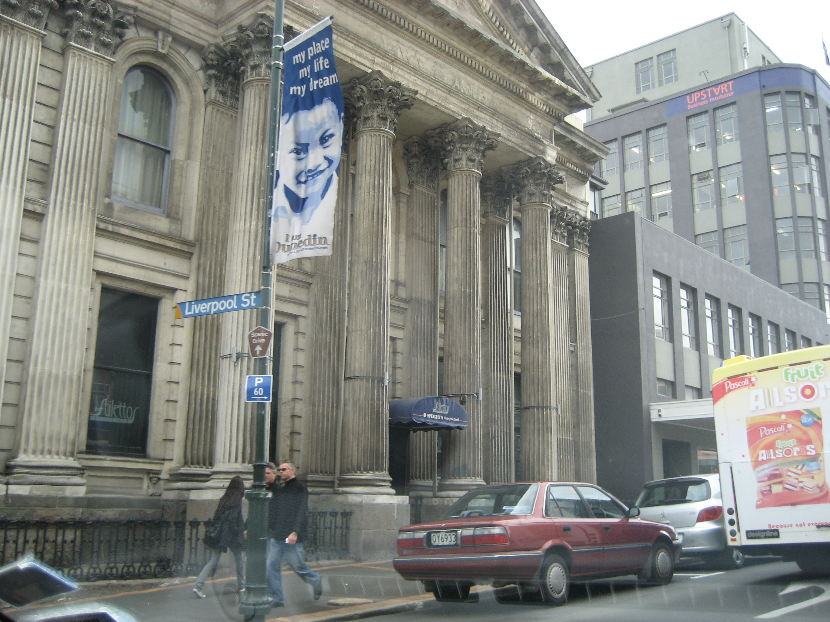 Littlebourne, Dunedin, NZ